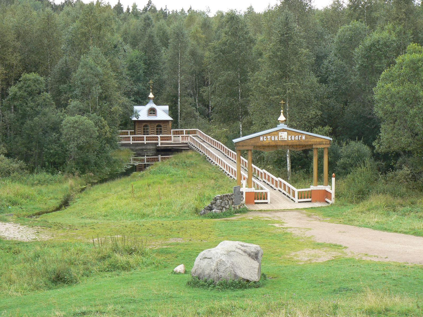 Source of the VolgaHrvatski: Izvor Volge